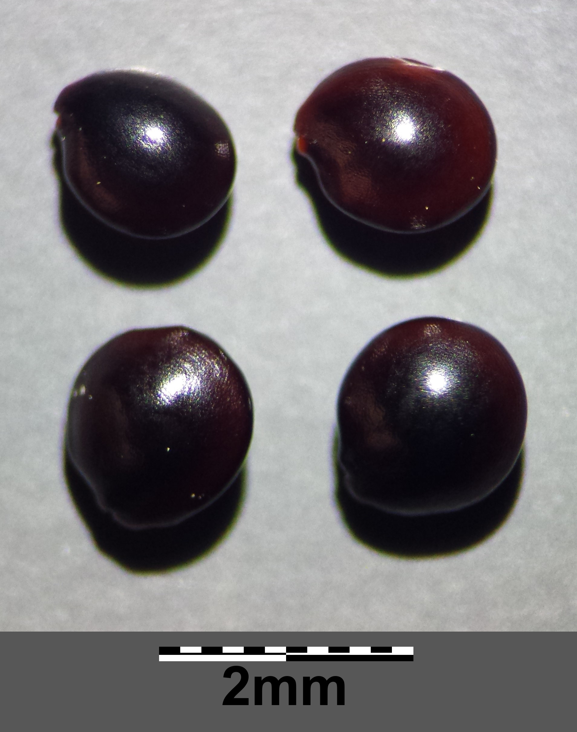 Seeds Taxonym: Amaranthus blitoides ss Fischer et al. EfÖLS 2008 ISBN 978-3-85474-187-9 Location: Hasswellgasse, Vienna-Floridsdorf - ca. 160 m a.s.l. Habitat: field